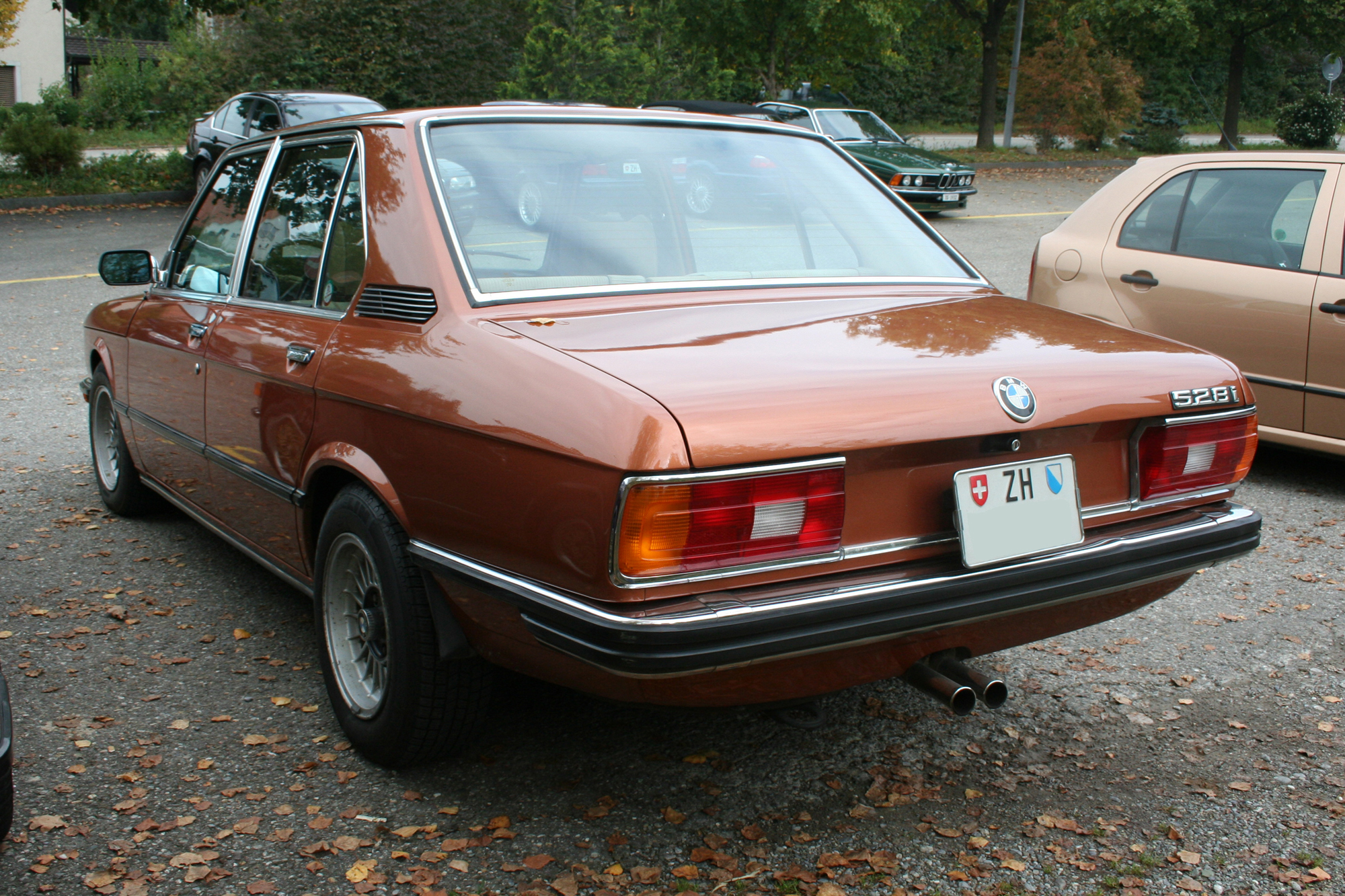 BMW E12